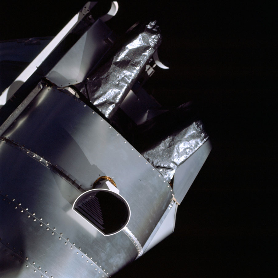 View of the top of the Apollo 9 Lunar Module LM-3 showing conical sun shade on Alinement Optical Telescope